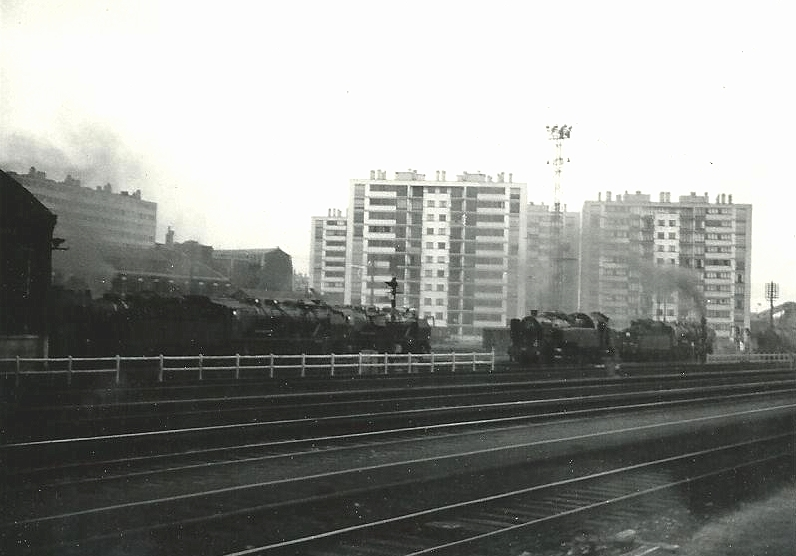 The former Etat Paris (Batignolles) Depot, outside Gare de St.Lazaire, 07/65. 141D & G Pacifics, 140C 2-8-0's and 141TD 2-8-2T's are visible. Scanned from a photograph taken with an Halina 35X Super camera from a boat train. I was on a school holiday to Cannes. We travelled by overnight bus from Neath Grammar School to Newhaven Harbour, caught a cross-channel ferry to Dieppe, took a boat train hauled by an Etat "231D" Pacific to Paris Gare de St.Lazaire, then by metro to Gare de Lyon to catch an overnight couchette sleeper hauled by a Class "D2-9100" 1Do1 electric to Marseiiles, where we changed - finally - to an express hauled by an SNCF Class "141R" 2-8-2 to Cannes - a long journey!